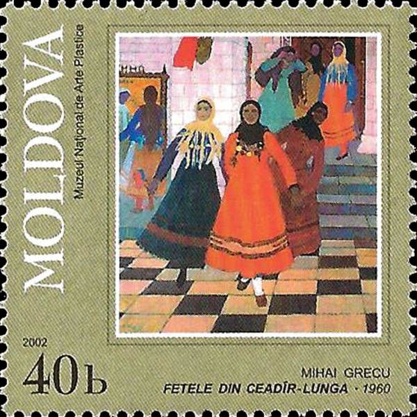 Stamp of Moldova depicting "The Girls from Ciadar-Lunga", by Mihai Grecu, 1960